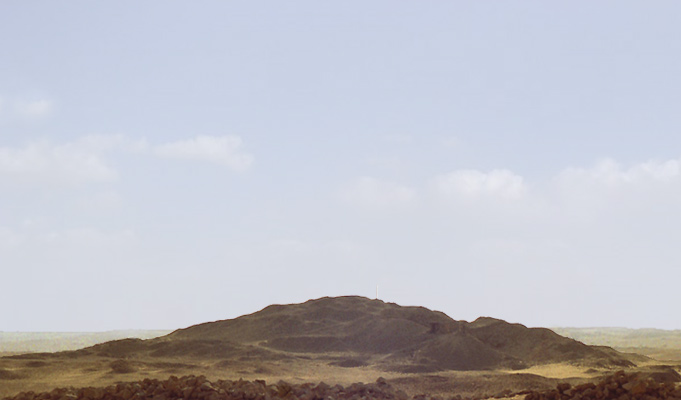 Pyramid of Merenre, Saqqara, 1990ies